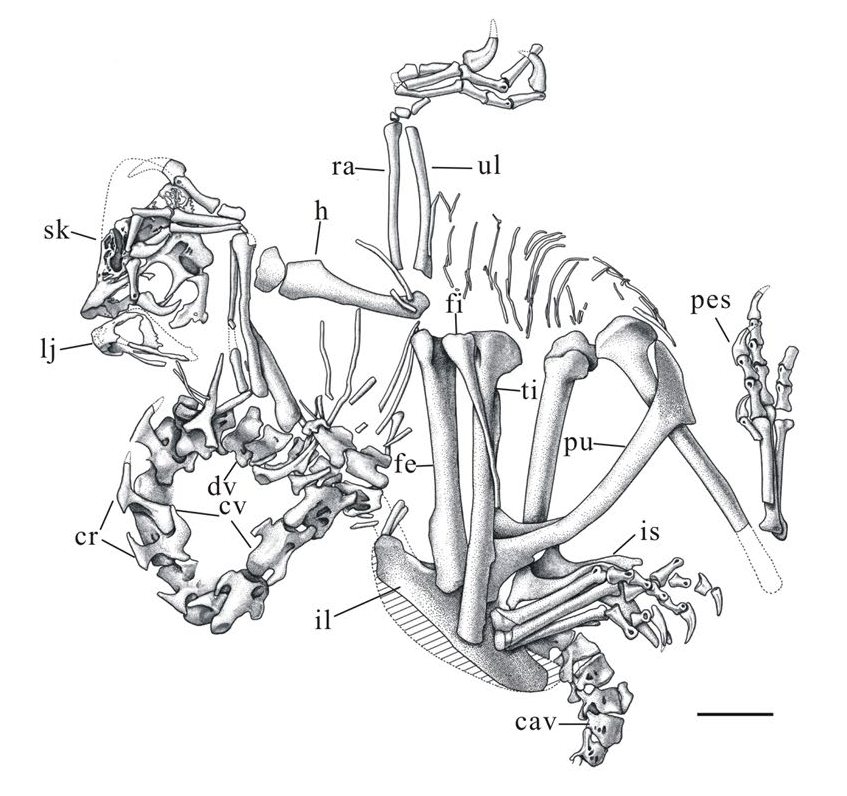 The holotype of Corythoraptor jacobsi gen. et sp. nov. (JPM-2015-001). Outline drawings.